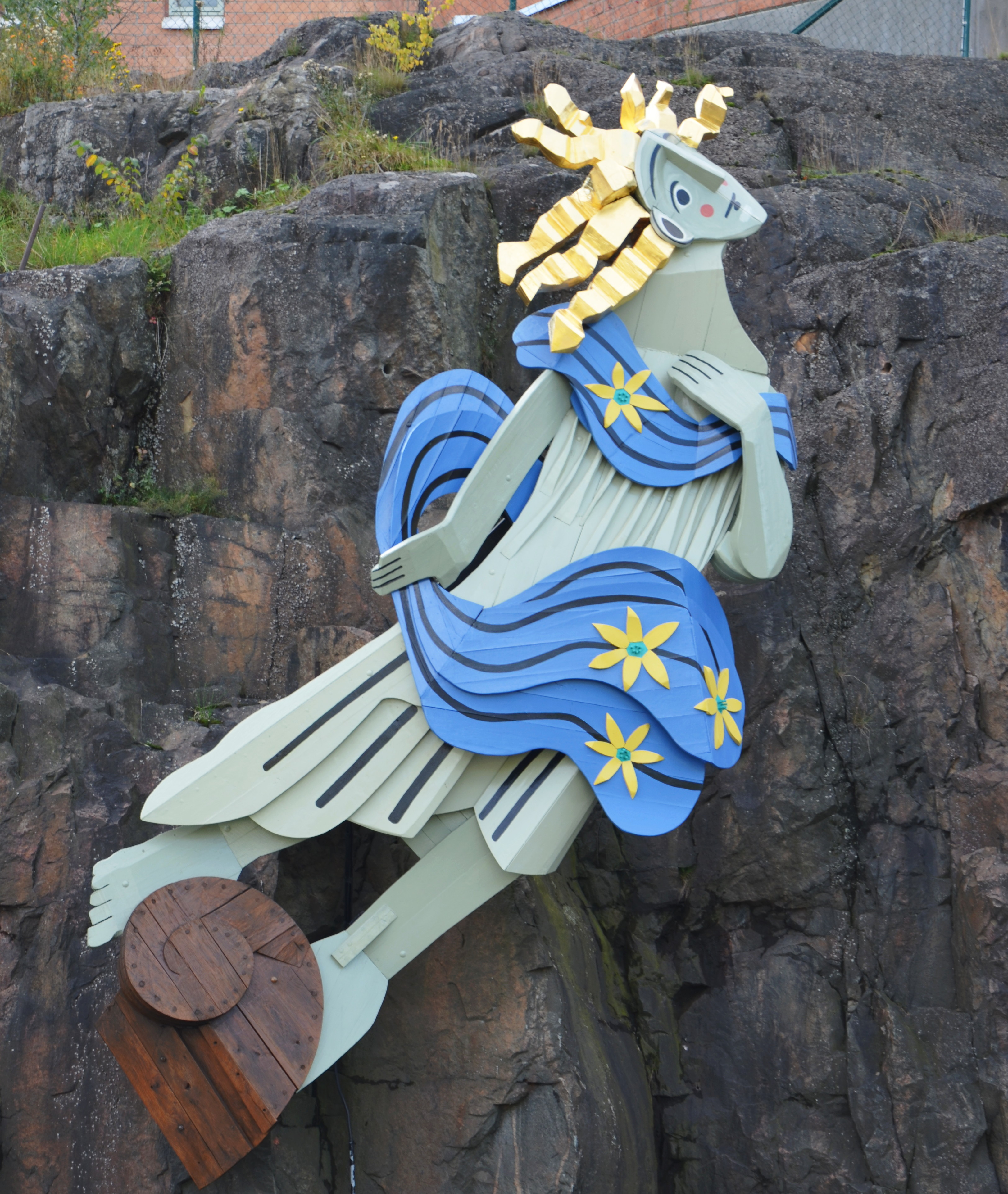 Acke Oldenburgs Fröken Ek, Liljeholmen, Stockholm